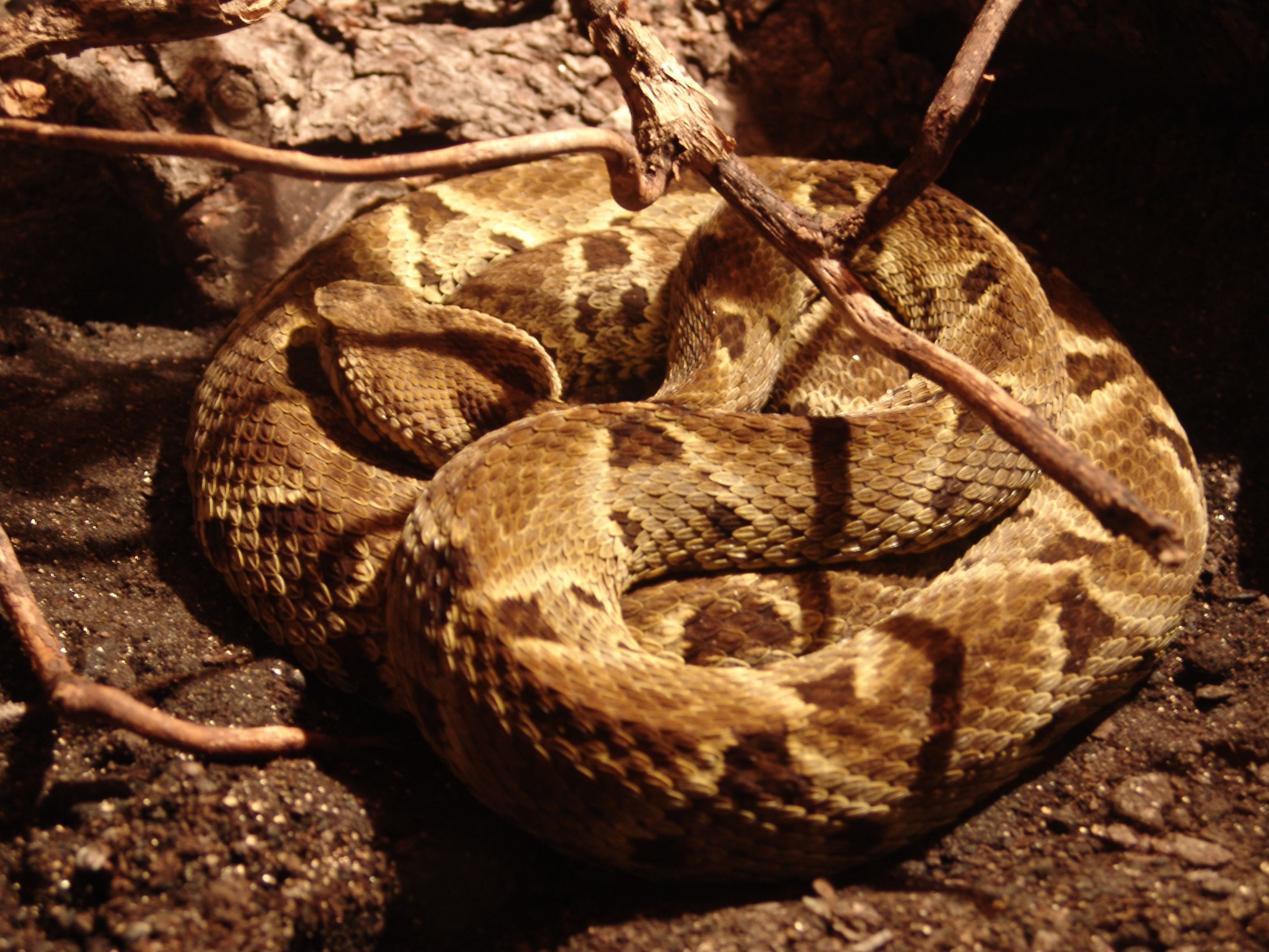 Common Lancehead (Bothrops atrox) at Wilmington's Serpentarium. I took the picture.